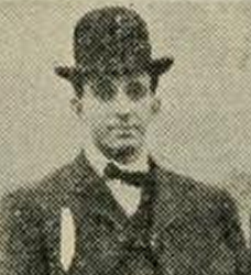 Samuel L. Moyer, Franklin & Marshall Diplomats football coach for 1906